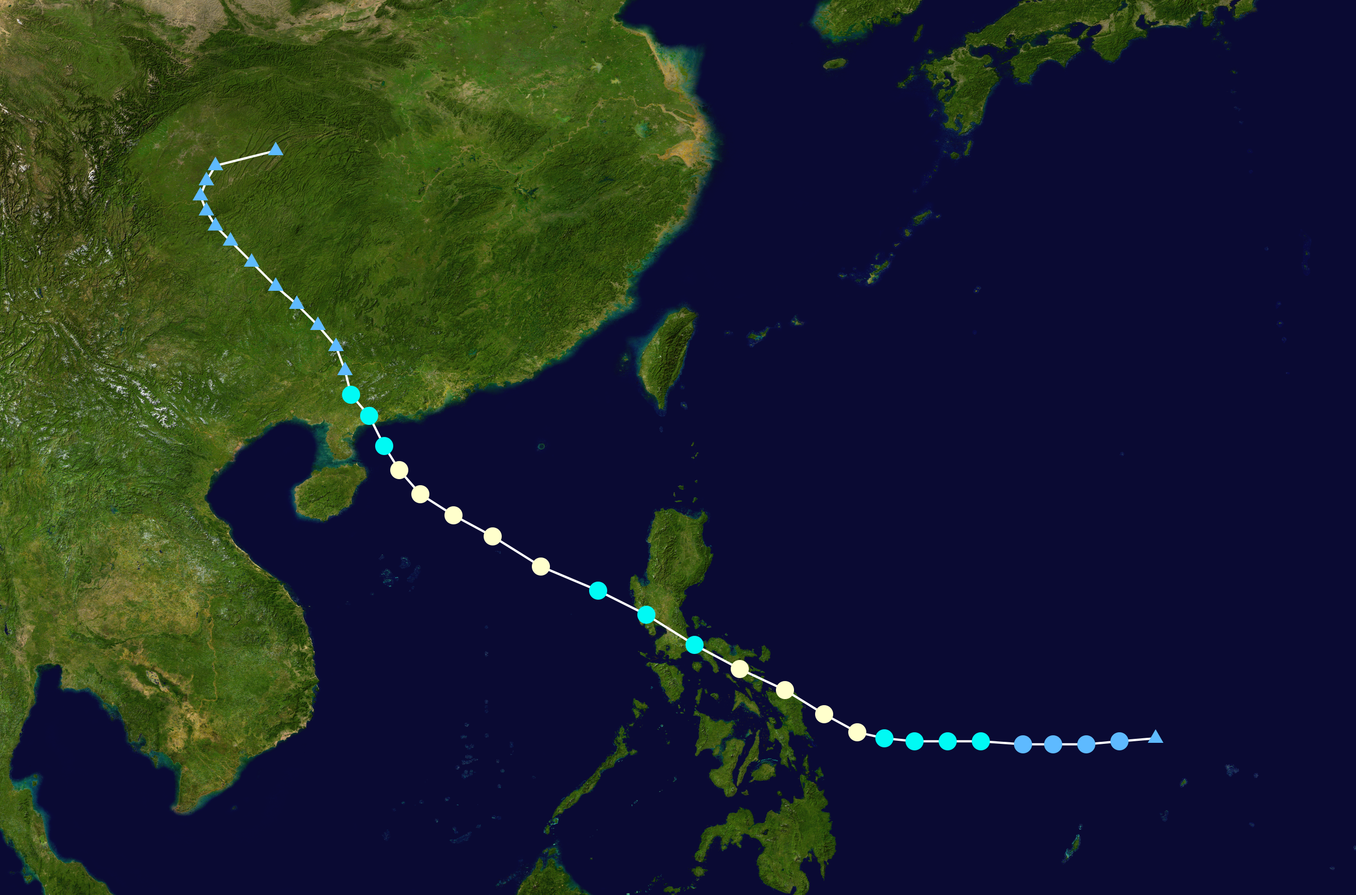 Track map of Typhoon Ora of the 1972 Pacific typhoon season. The points show the location of the storm at 6-hour intervals. The colour represents the storm's maximum sustained wind speeds as classified in the Saffir–Simpson hurricane wind scale (see below), and the shape of the data points represent the nature of the storm, according to the legend below. Saffir–Simpson hurricane wind scale Tropical depression≤38 mph≤62 km/h Category 3111–129 mph178–208 km/h Tropical storm39–73 mph63–118 km/h Category 4130–156 mph209–251 km/h Category 174–95 mph119–153 km/h Category 5≥157 mph≥252 km/h Category 296–110 mph154–177 km/h Unknown Storm typeTropical cycloneSubtropical cycloneExtratropical cyclone / Remnant low / Tropical disturbance